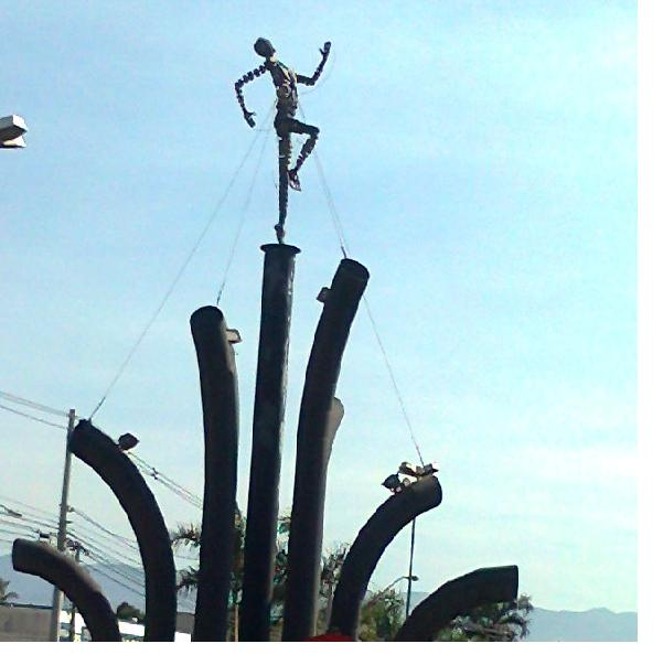 João Carlos de Oliveira (João do Pulo) Memorial - Pindamonhangaba-SP-Brazil